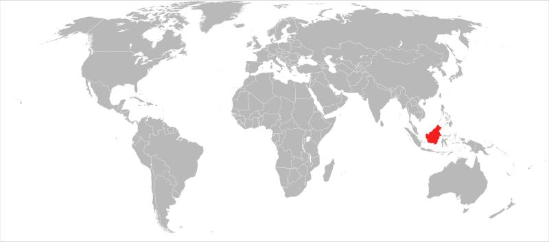 Habitat map of the Tufted Ground Squirrel Rheithrosciurus macrotis File:BlankMap-World6, compact.svg by Canuckguy et al. IUCN red list Date: 25 February 2010 Author:Saukkomies